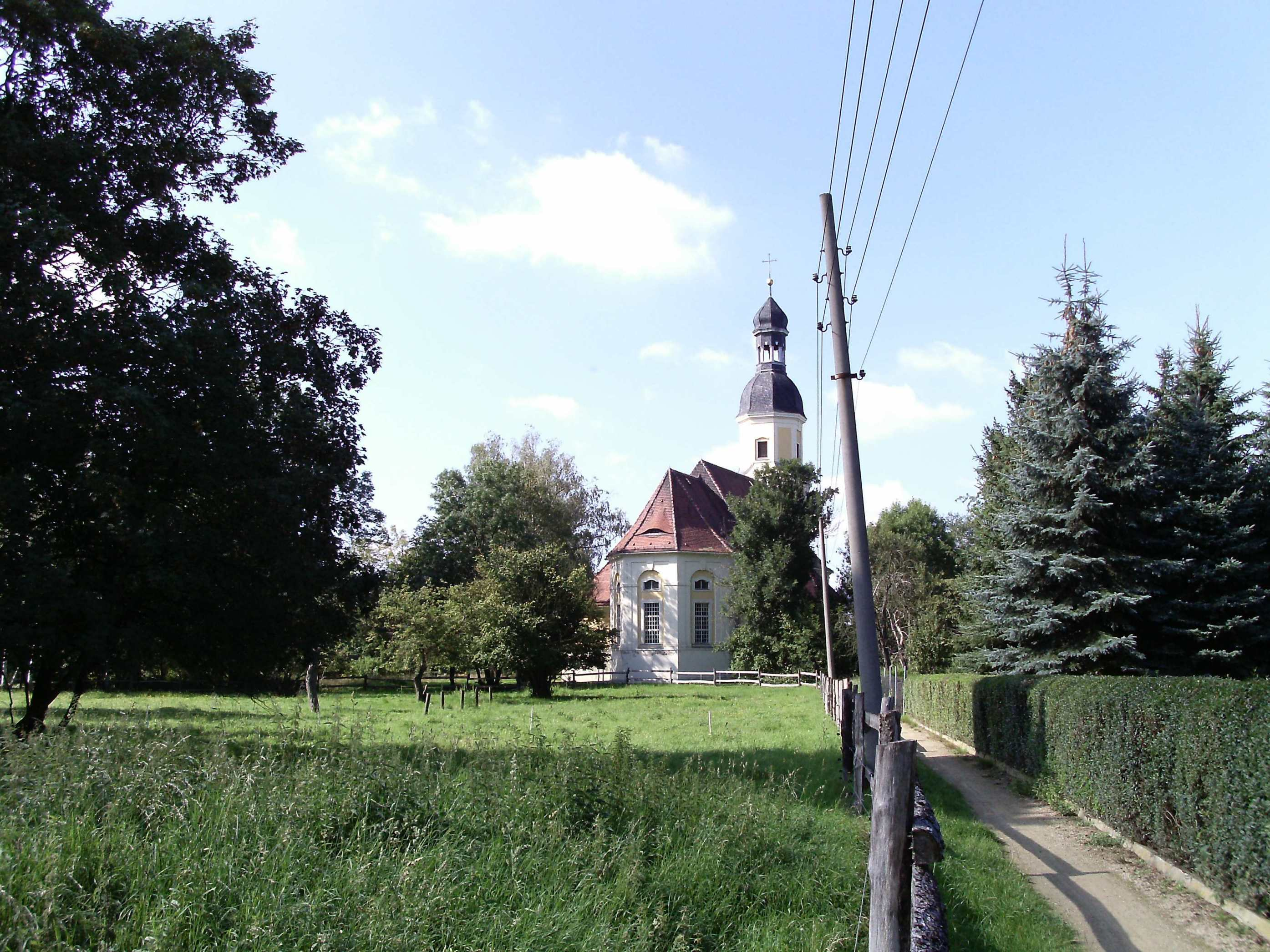 Church of the village of Hof (Naundorf, Nordsachsen district, Saxony)